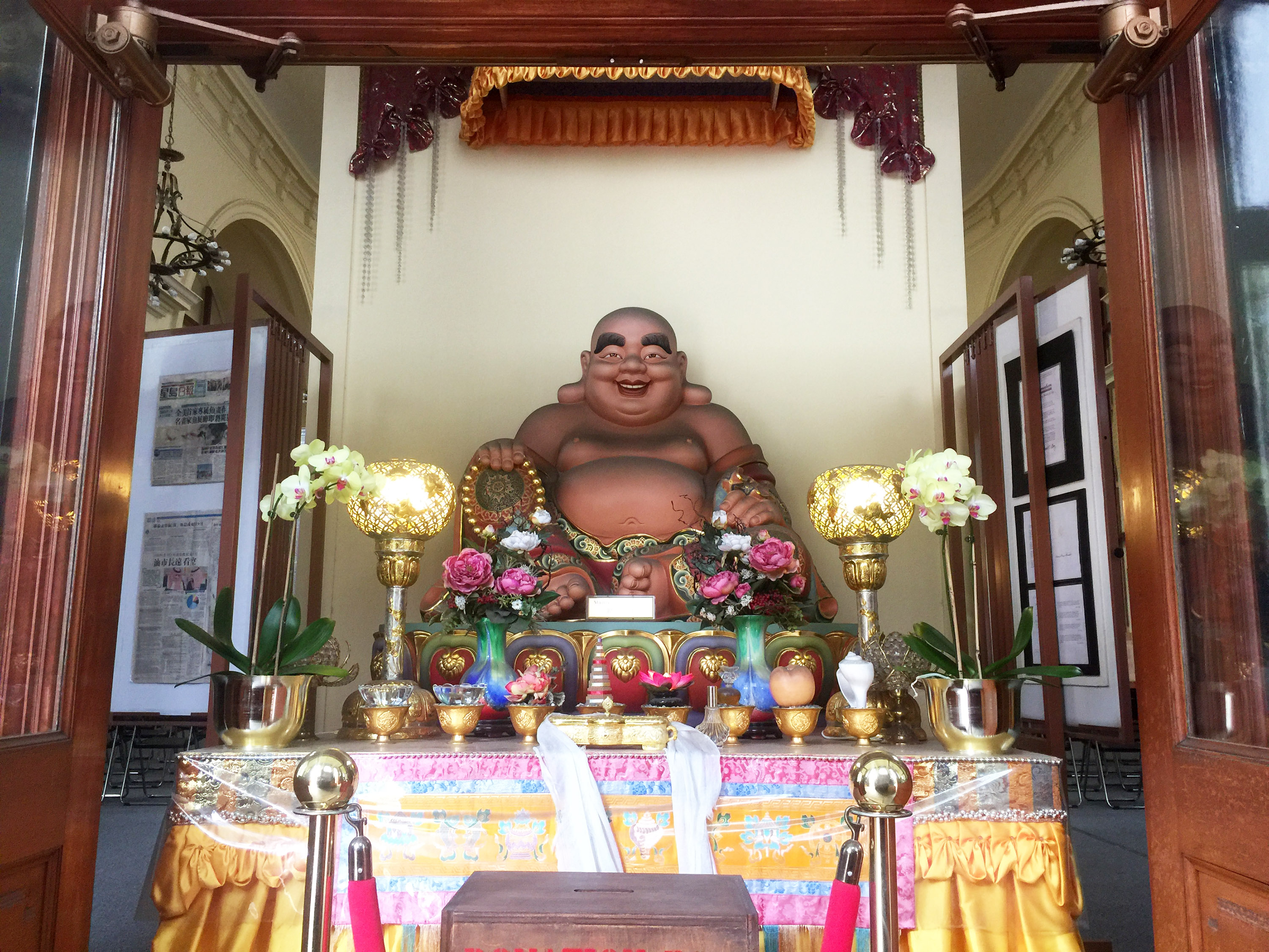 The statue of Maitreya Bodhisattva, Macang Monastery, San Francisco